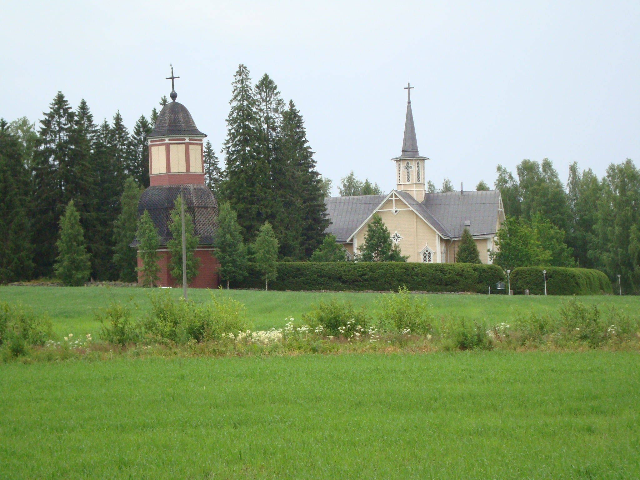 Suomenniemi church, built in 1866, and belfry, built in 1777, in Suomenniemi, South Karelia, Eastern Finland. The church is located about 750 metres from the village centre in an open field area. There is a small cemetery too.